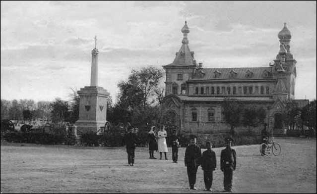 Skobelevskaya Square in Ashgabat in 1913